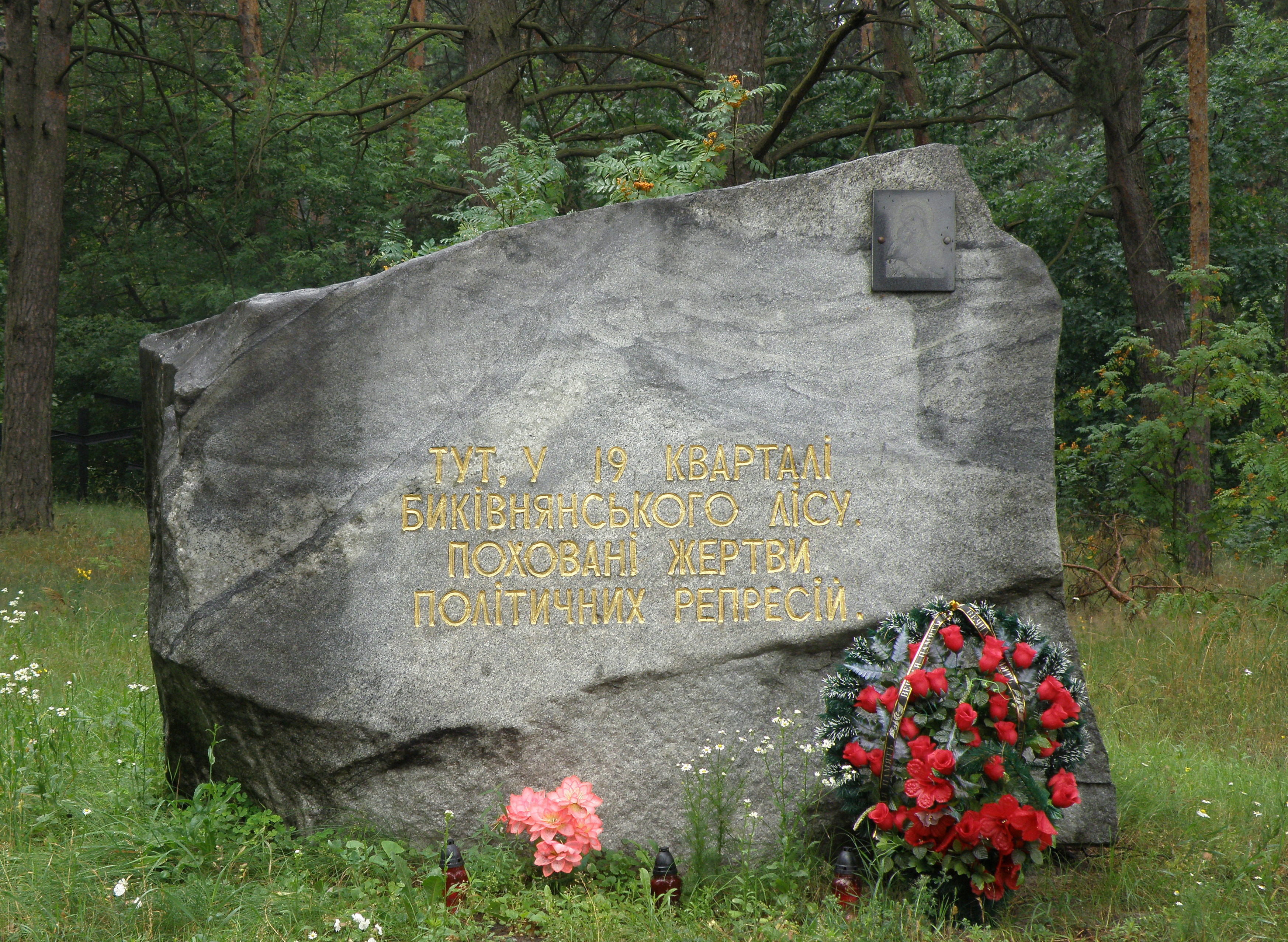 Monument in Bykivnia. Here in a 19 quarter of the forest are the buried victims of political repressions.